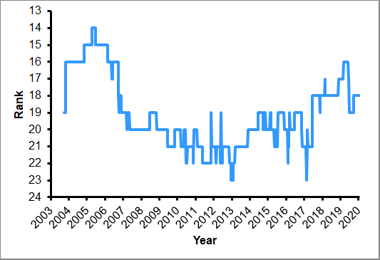 IRB World Rankings from